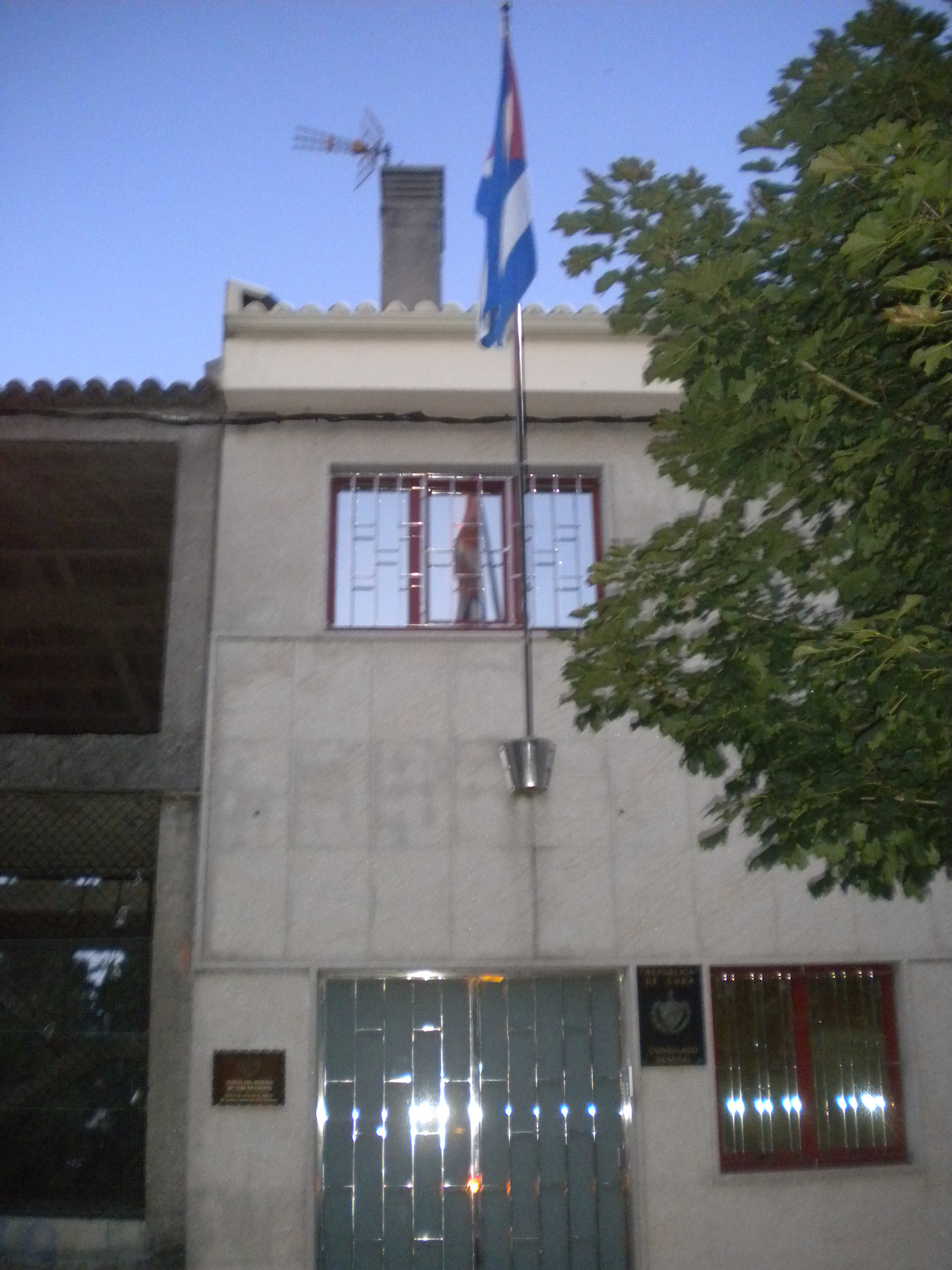 Galicia,Spain